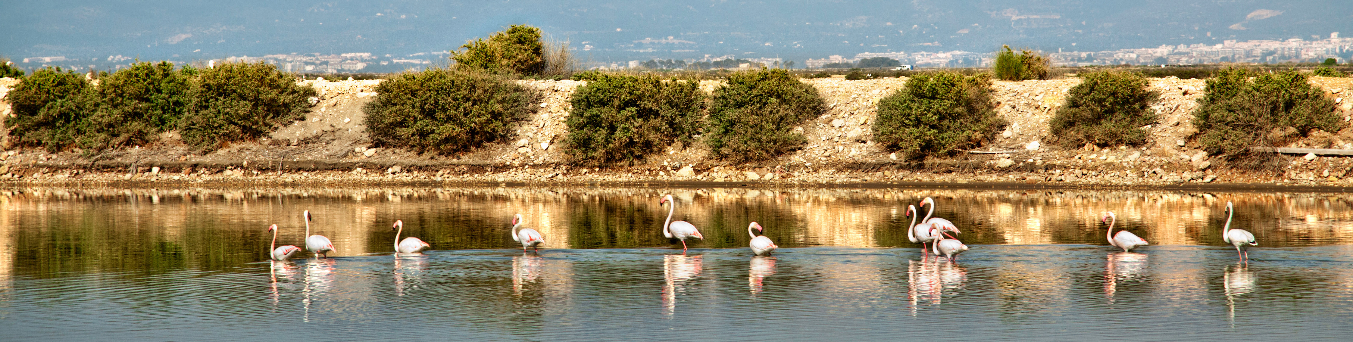 This is a a photo of a natural area in Catalonia, Spain, with id: ES510041